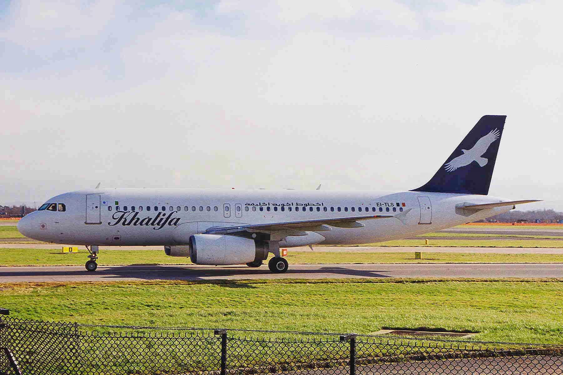 Leased from/op by Trans Aer